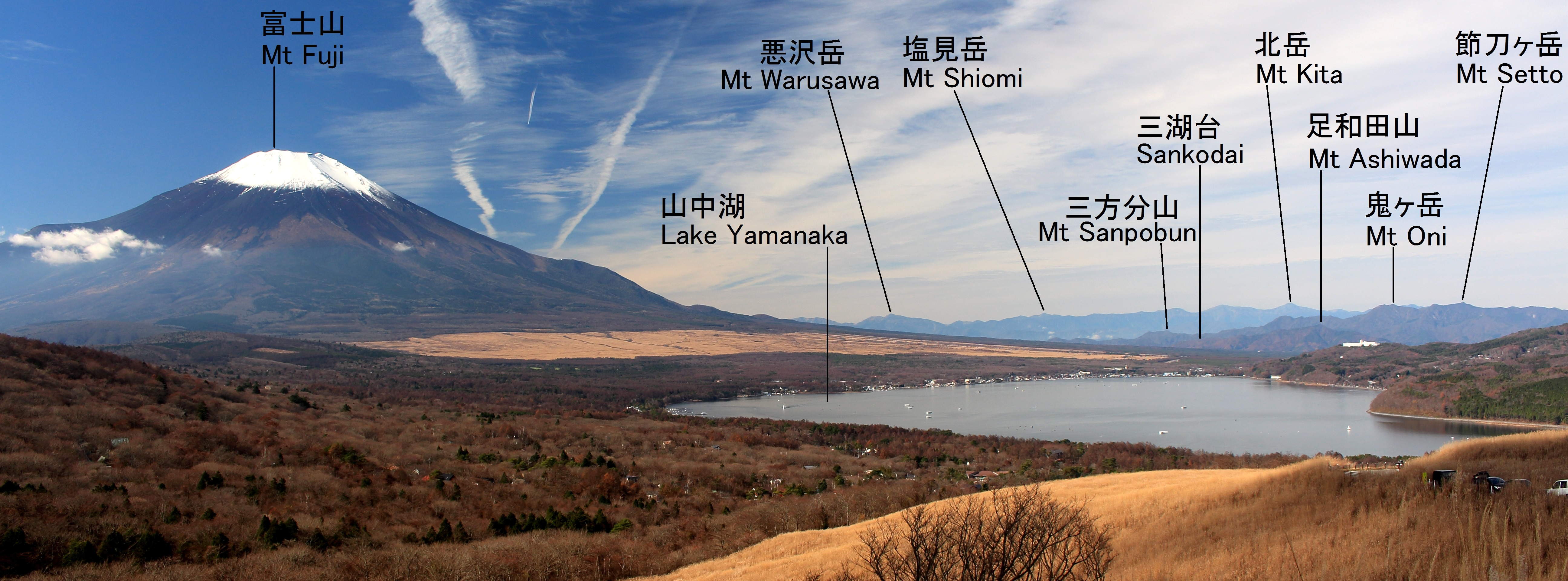 Mount Fuji, Lake Yamanaka, Misaka Mountains and Akaishi Mountains in Yamanashi Prefecture, Japan.